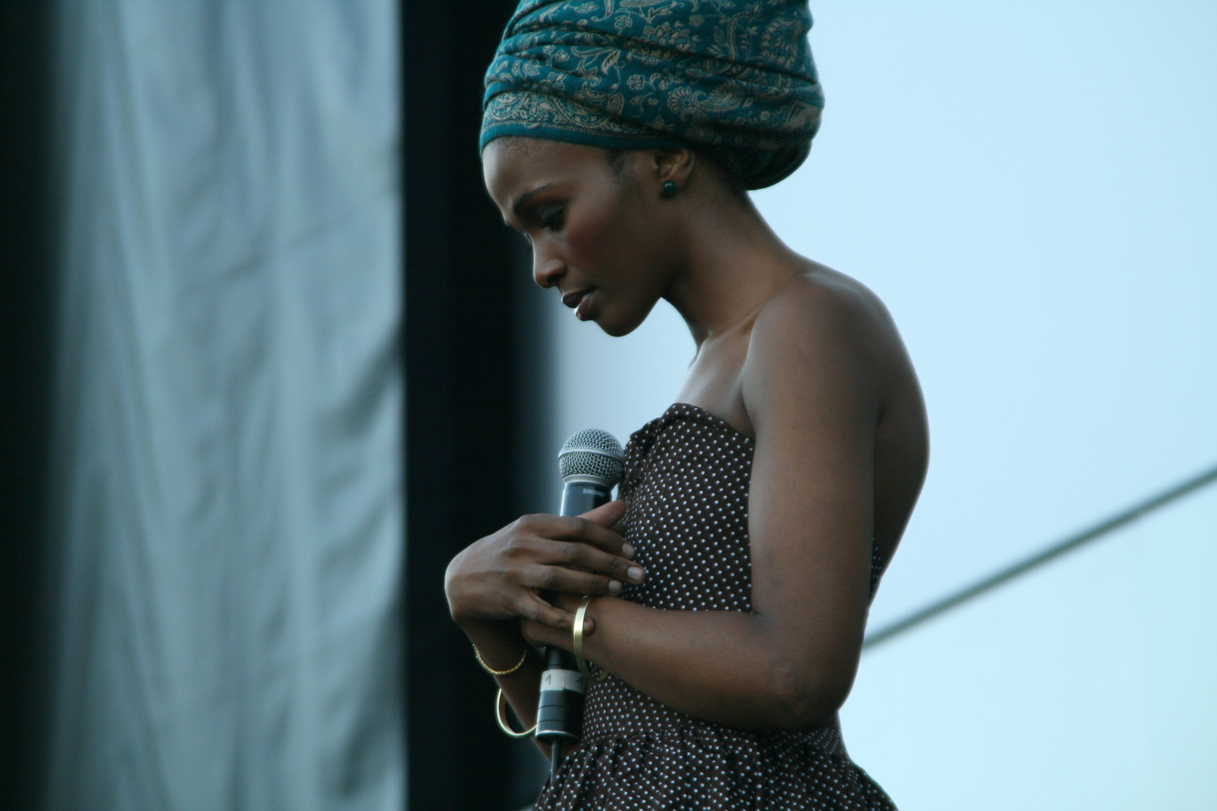 South African singer Simphiwe Dana at the Rathausplatz in Vienna (Jazz-Fest Wien)